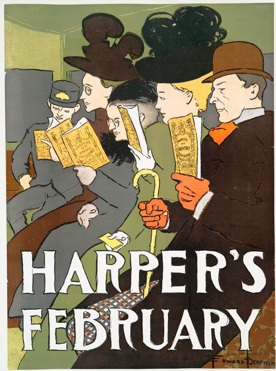 Poster for Harper's magazine, February